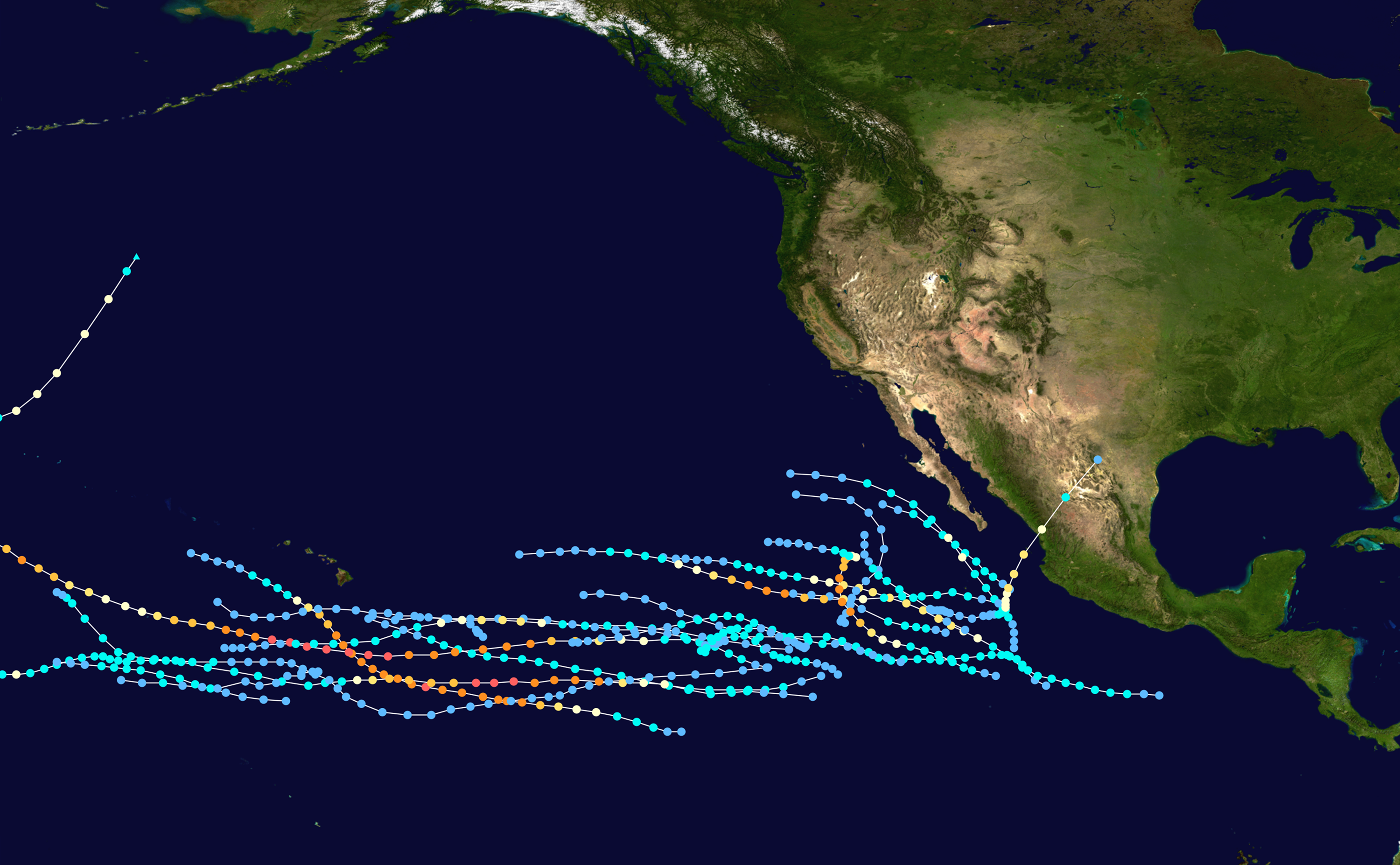 This map shows the tracks of all tropical cyclones in the 1994 Pacific hurricane season. The points show the location of each storm at 6-hour intervals. The colour represents the storm's maximum sustained wind speeds as classified in the Saffir-Simpson Hurricane Scale (see below), and the shape of the data points represent the type of the storm. Saffir–Simpson scale Tropical depression≤38 mph≤62 km/h Category 3111–129 mph178–208 km/h Tropical storm39–73 mph63–118 km/h Category 4130–156 mph209–251 km/h Category 174–95 mph119–153 km/h Category 5≥157 mph≥252 km/h Category 296–110 mph154–177 km/h Unknown Storm typeTropical cycloneSubtropical cycloneExtratropical cyclone / Remnant low / Tropical disturbance